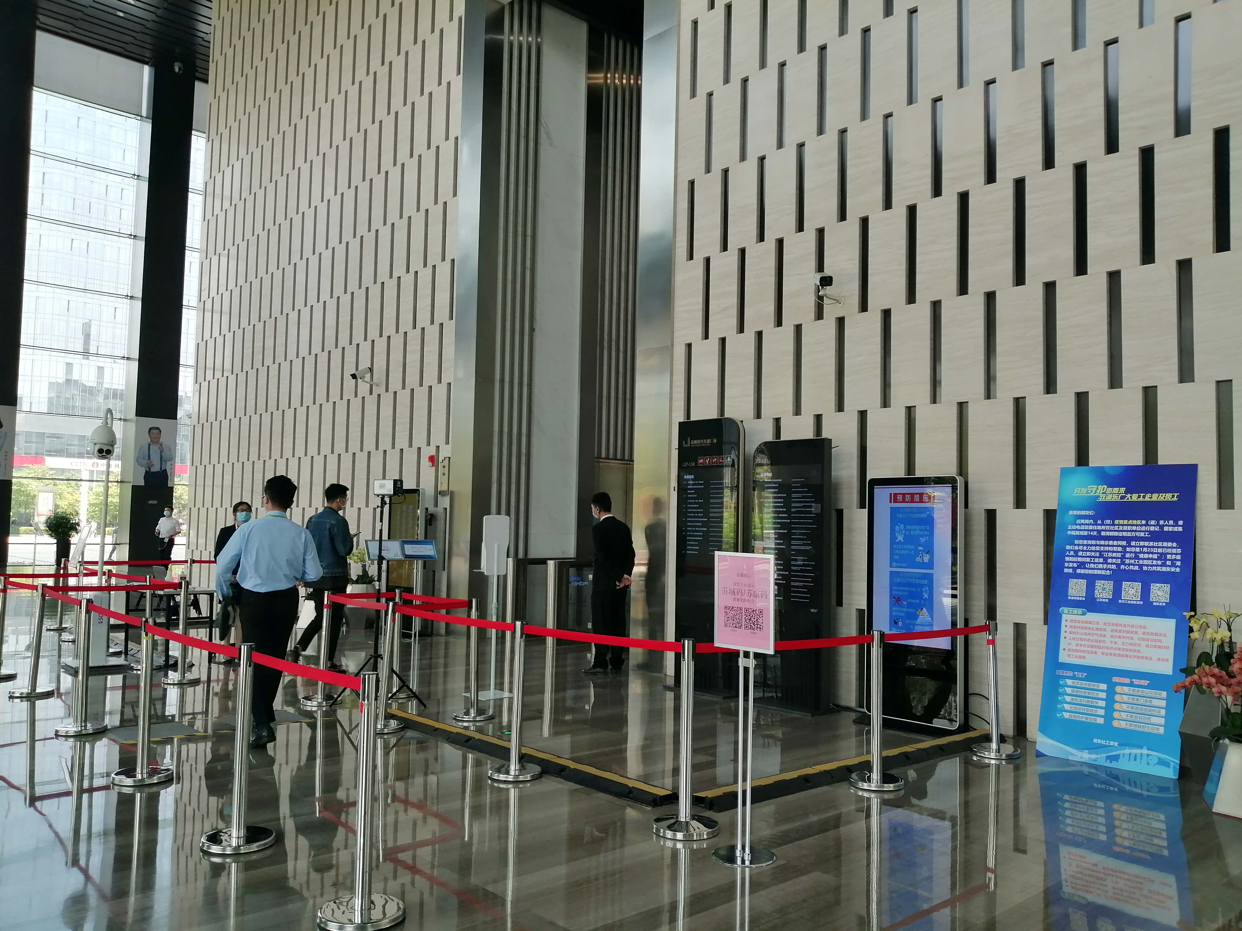 People check temperature through thermometer and show Health Code in the hall at the first floor.